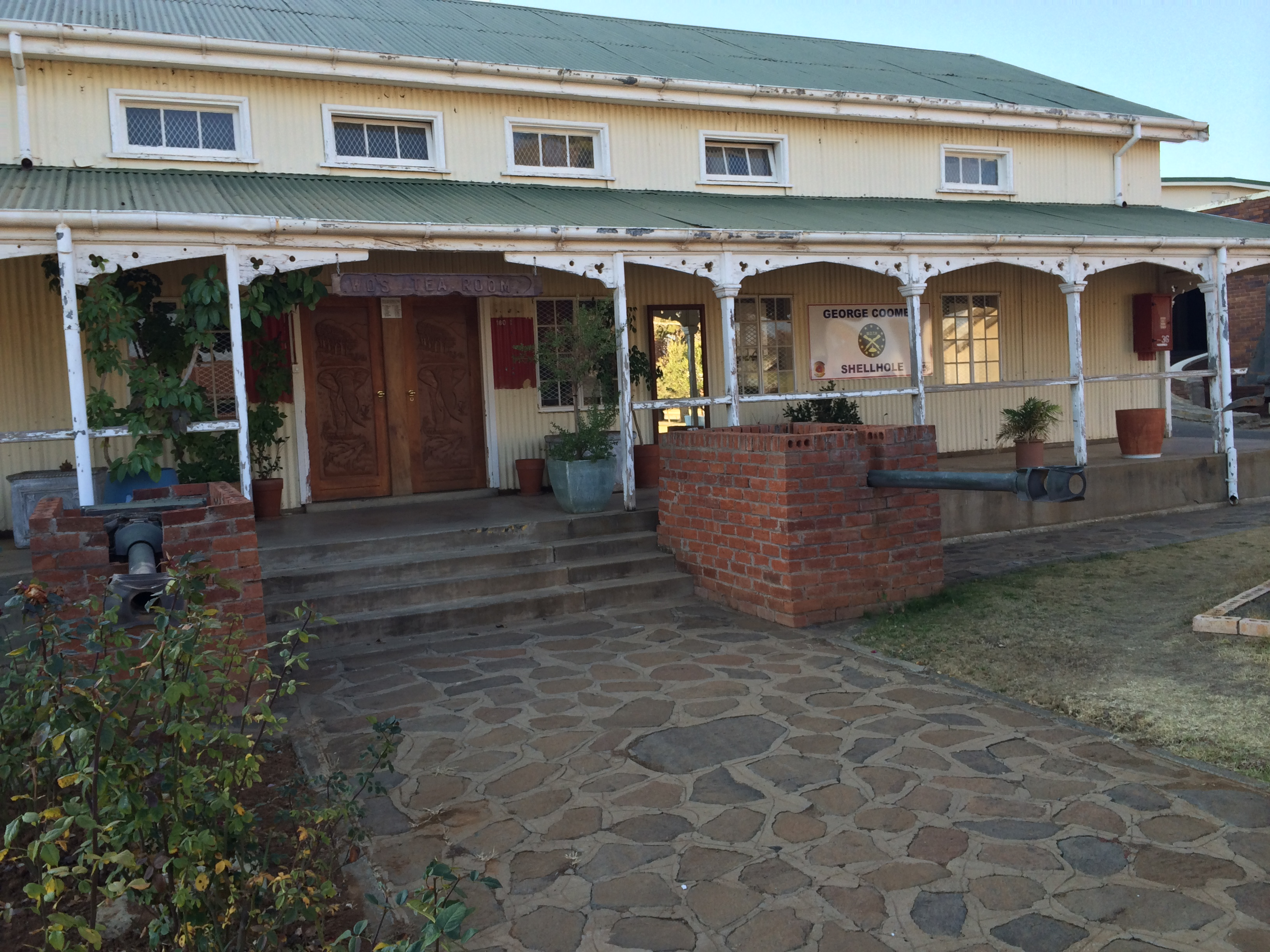 Description: George Coombs Shellhole at 1 Tank Regiment, Tempe Base, Bloemfontein. 2014.